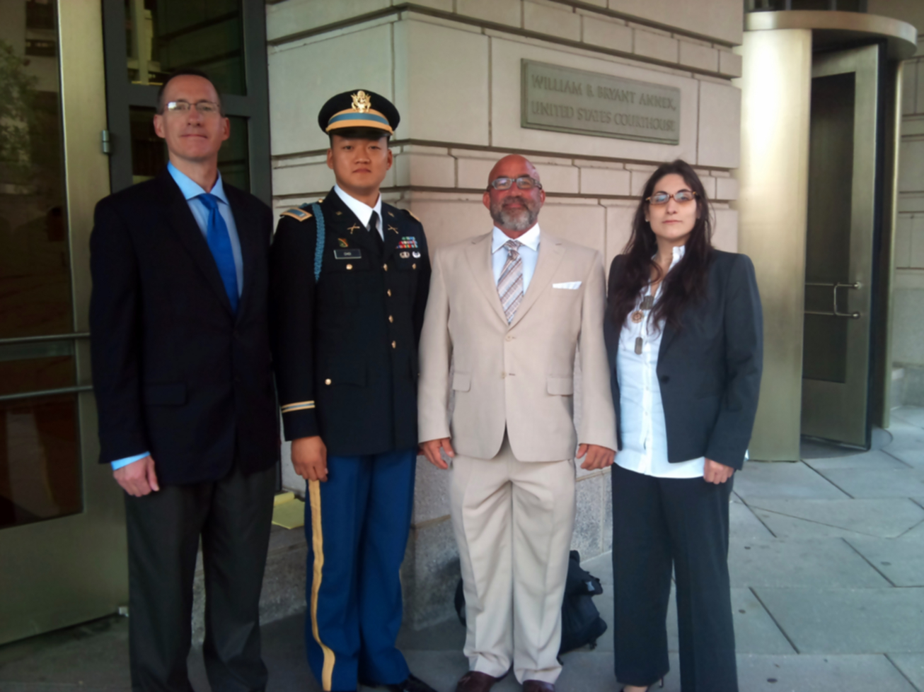 James Pietrangelo, Dan Choi, Robert Feldman, and Iana Di Bona outside of the courthouse. I (Brad Crothers) took this the first morning of the trial before entering the courthouse.